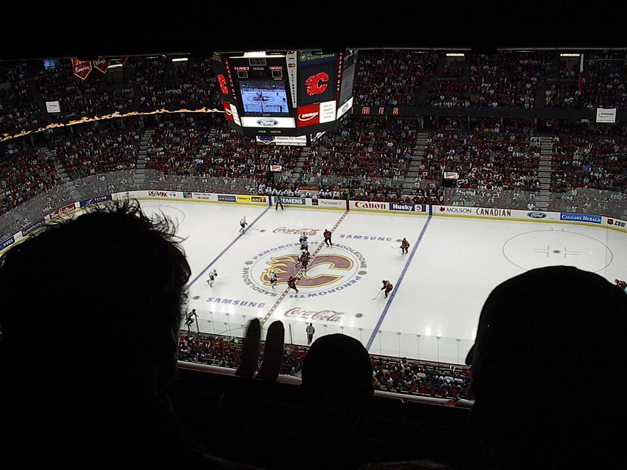 Opening faceoff from game 3 of the 2004 Stanley Cup Playoffs - Vancouver @ Calgary.